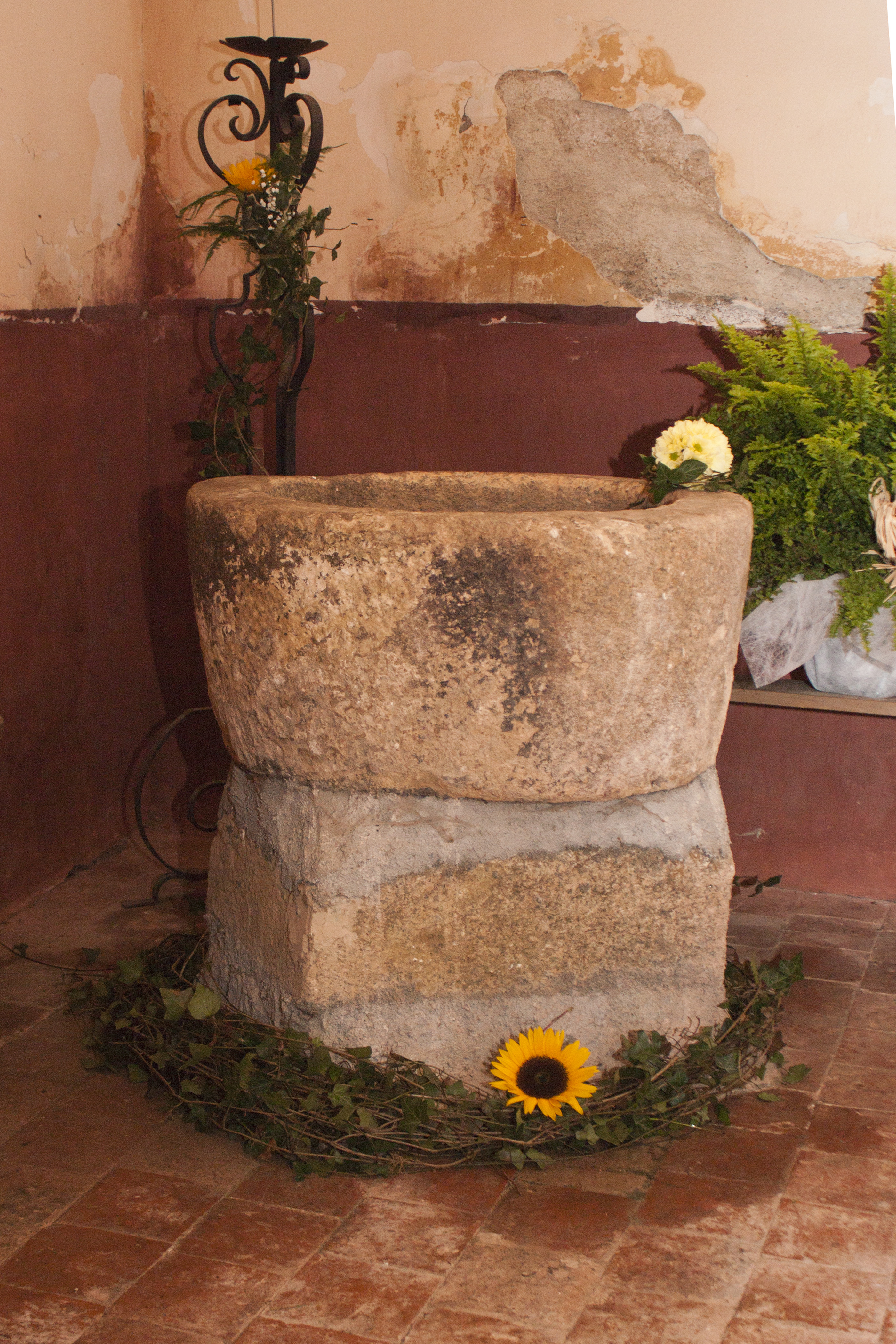 Baptismal fonts